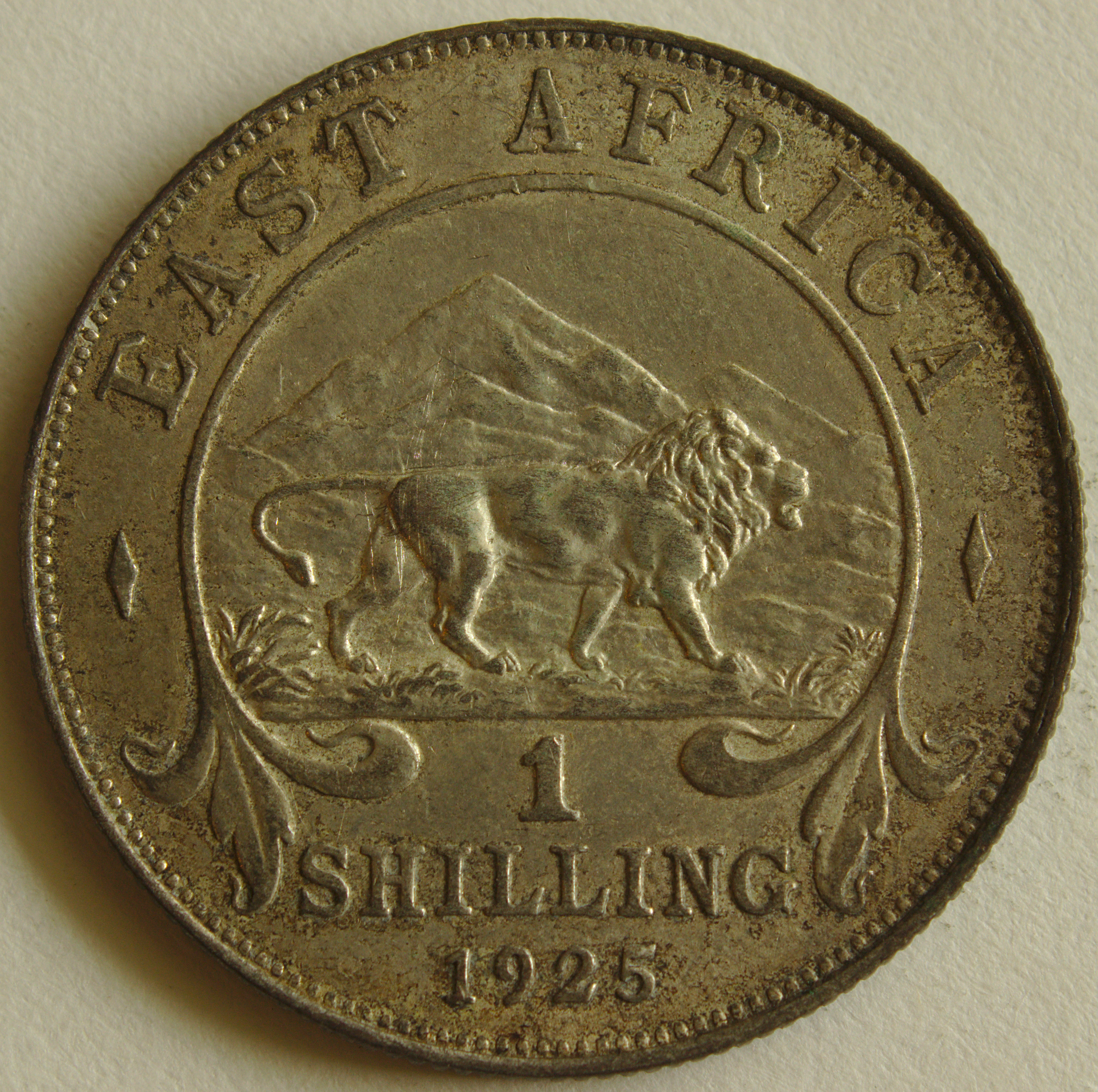 Reverse face of 1925 East African 1 shilling coin. Obverse face is at File:1925 East African 1 Shilling coin obverse.jpg